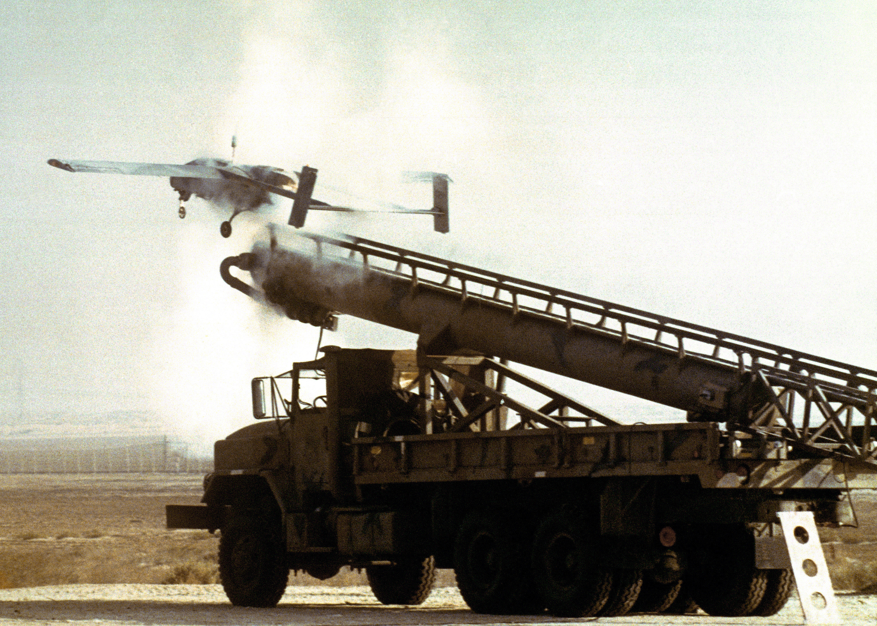 A Pioneer remotely piloted vehicle (RPV) is catapulted from a launching rail set up atop an M-814 5-ton cargo truck. The RPV is being tested in support of Operation Desert Shield.